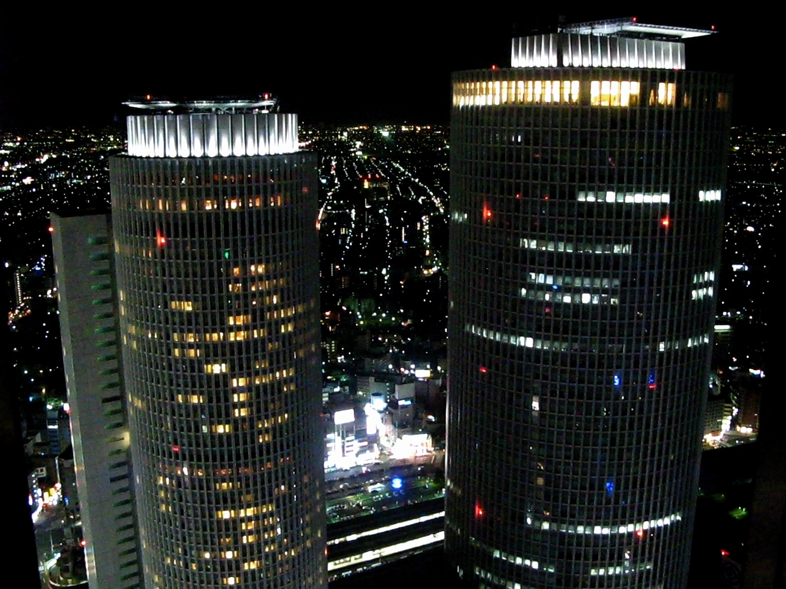 Nagoya at night.